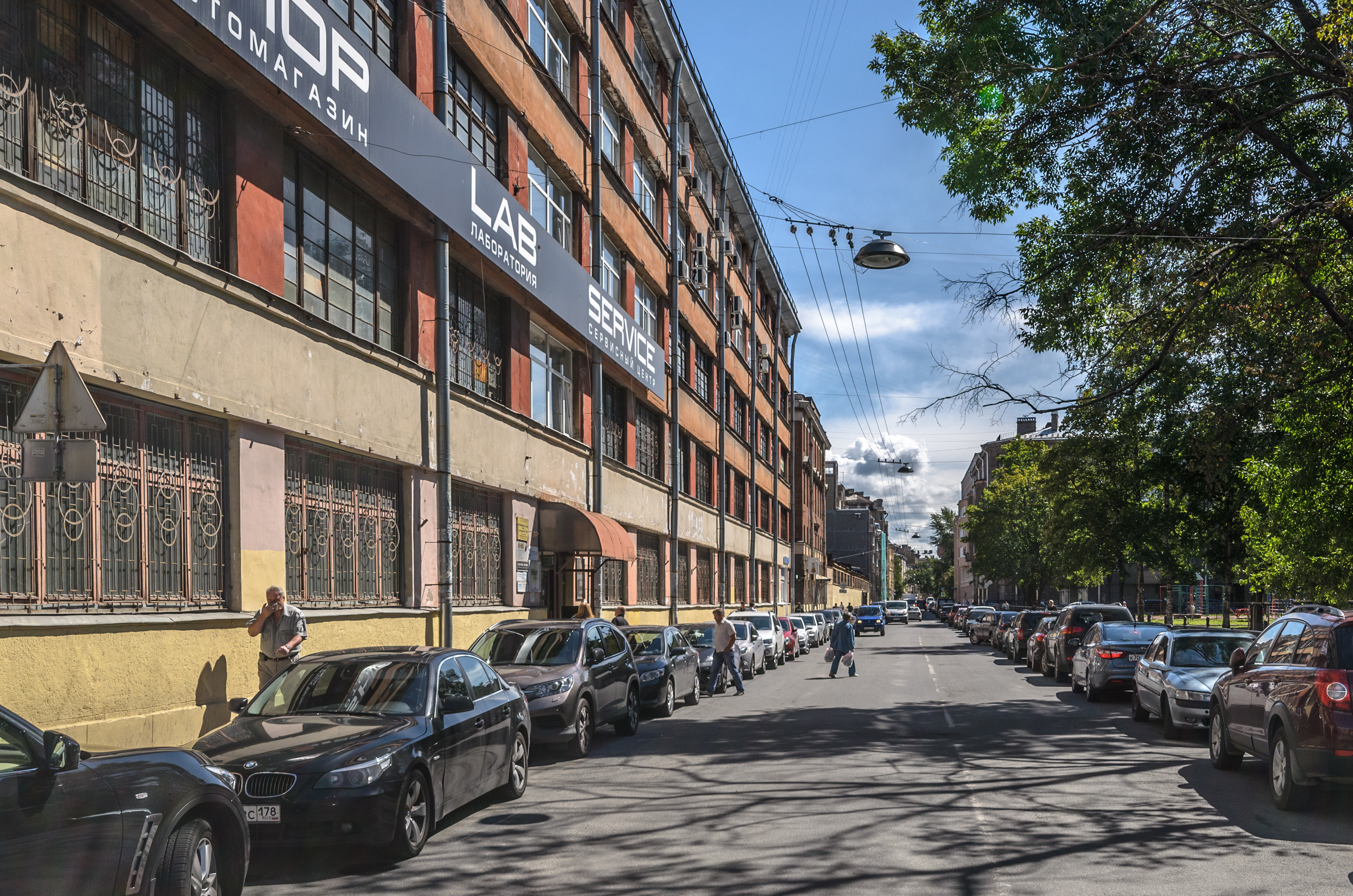 Oranienbaumskaya Street in Saint Petersburg